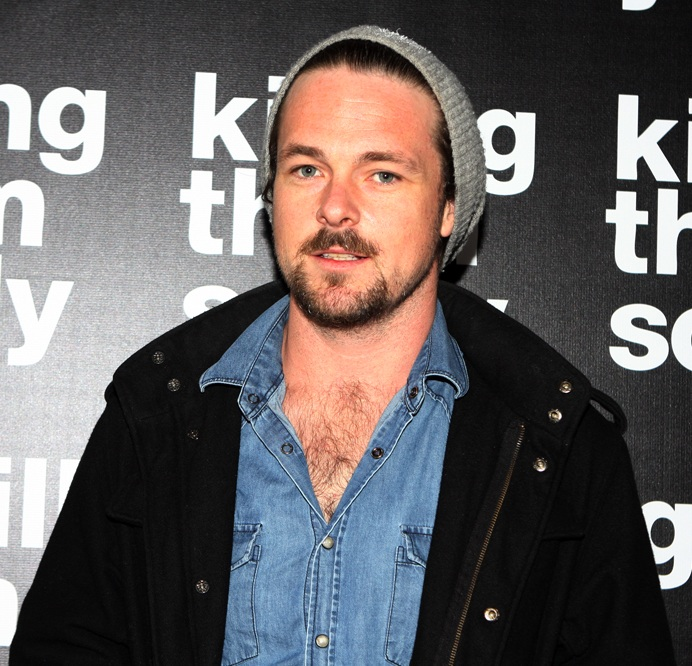 Actor Trent Baines at the Killing Then Softly movie premiere at Dendy Opera Quays